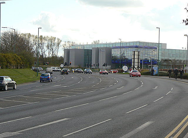 Queens Drive at ng2 This junction will have to be completely remodelled to incorporate the new tram route to Chilwell which will cross at this point.